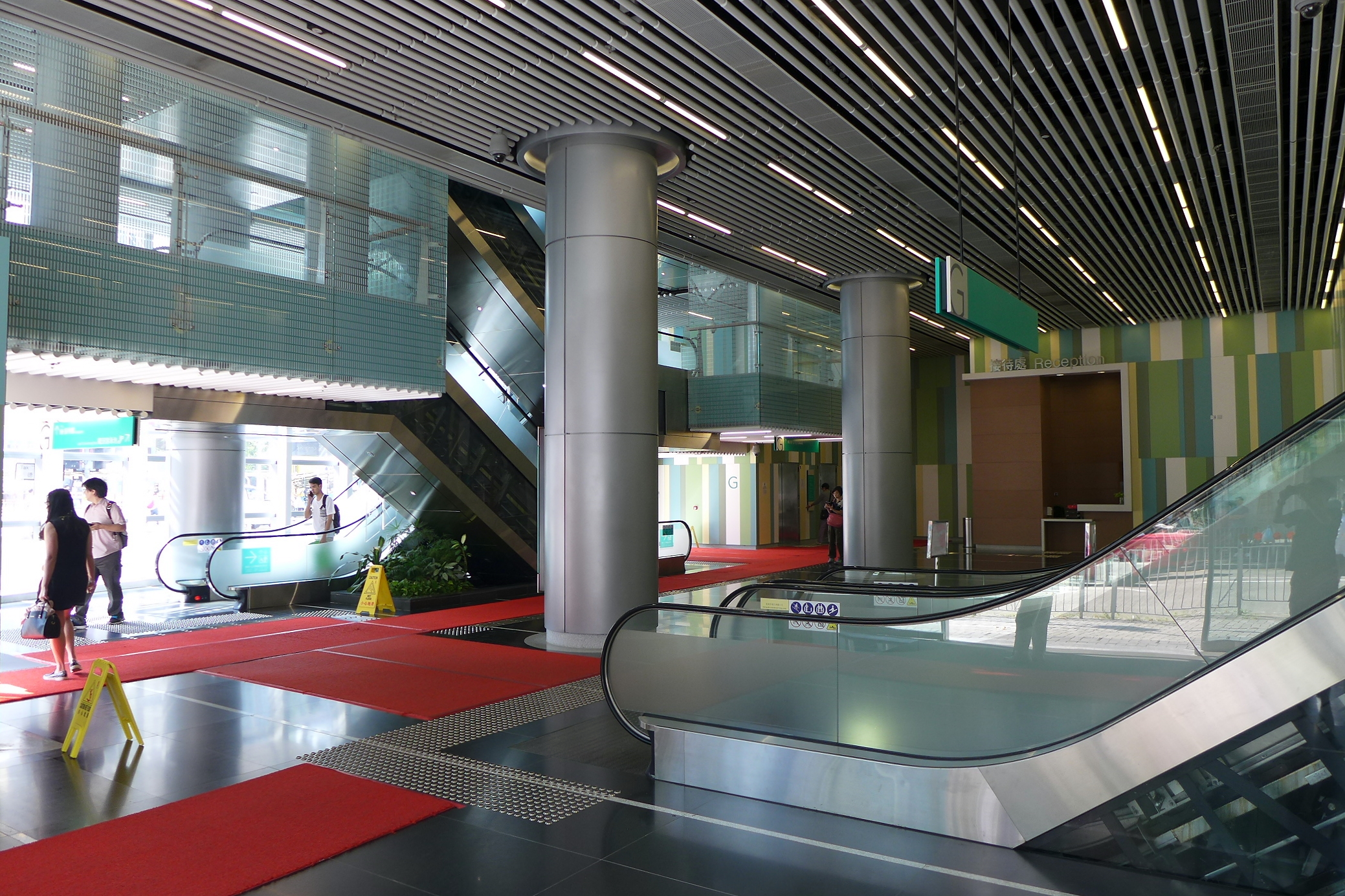 Lam Tin Complex GF Lobby